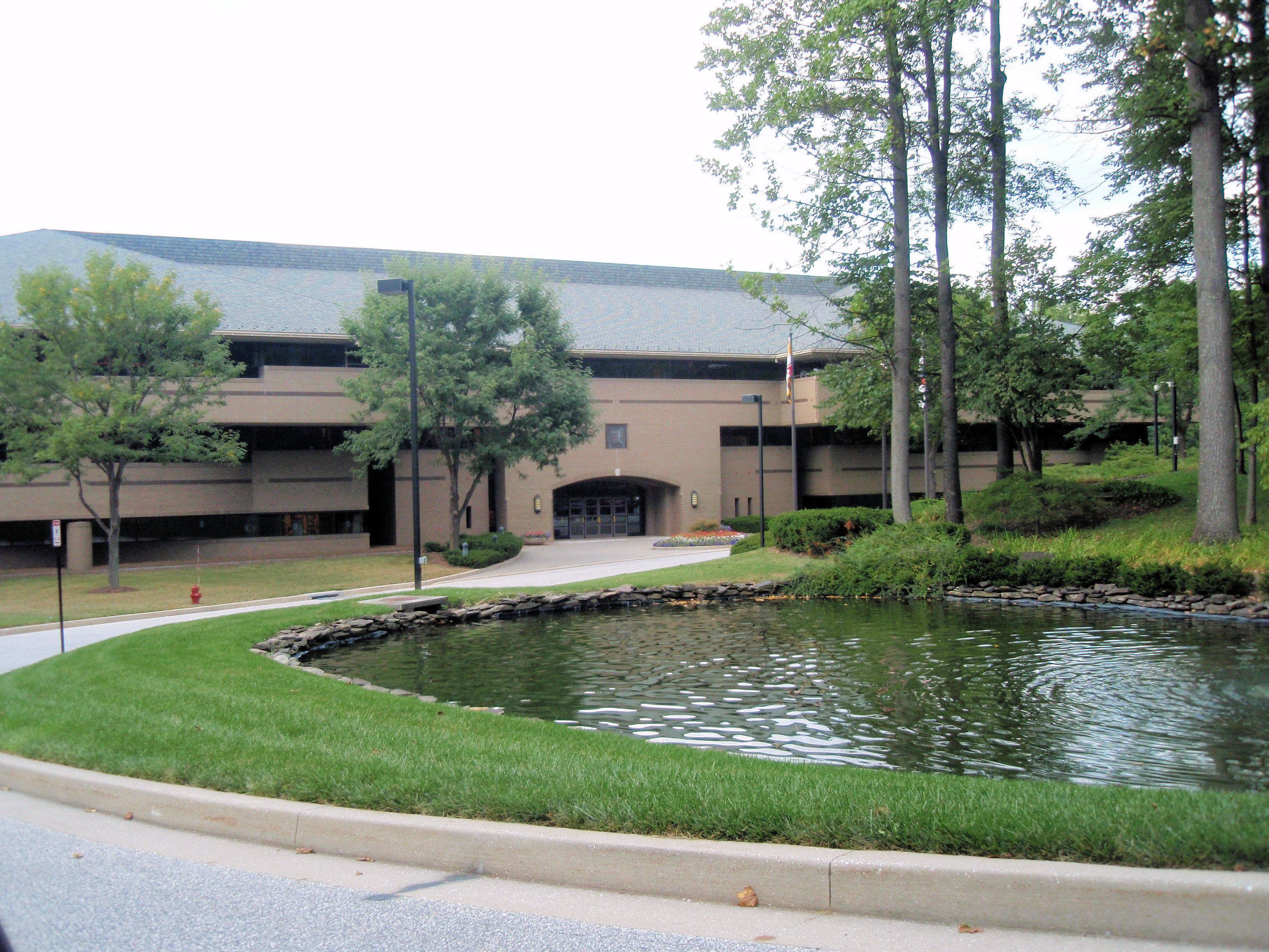 McCormick & Company former headquarters in Sparks. Photographed on August 22, 2008 by user Coolcaesar.